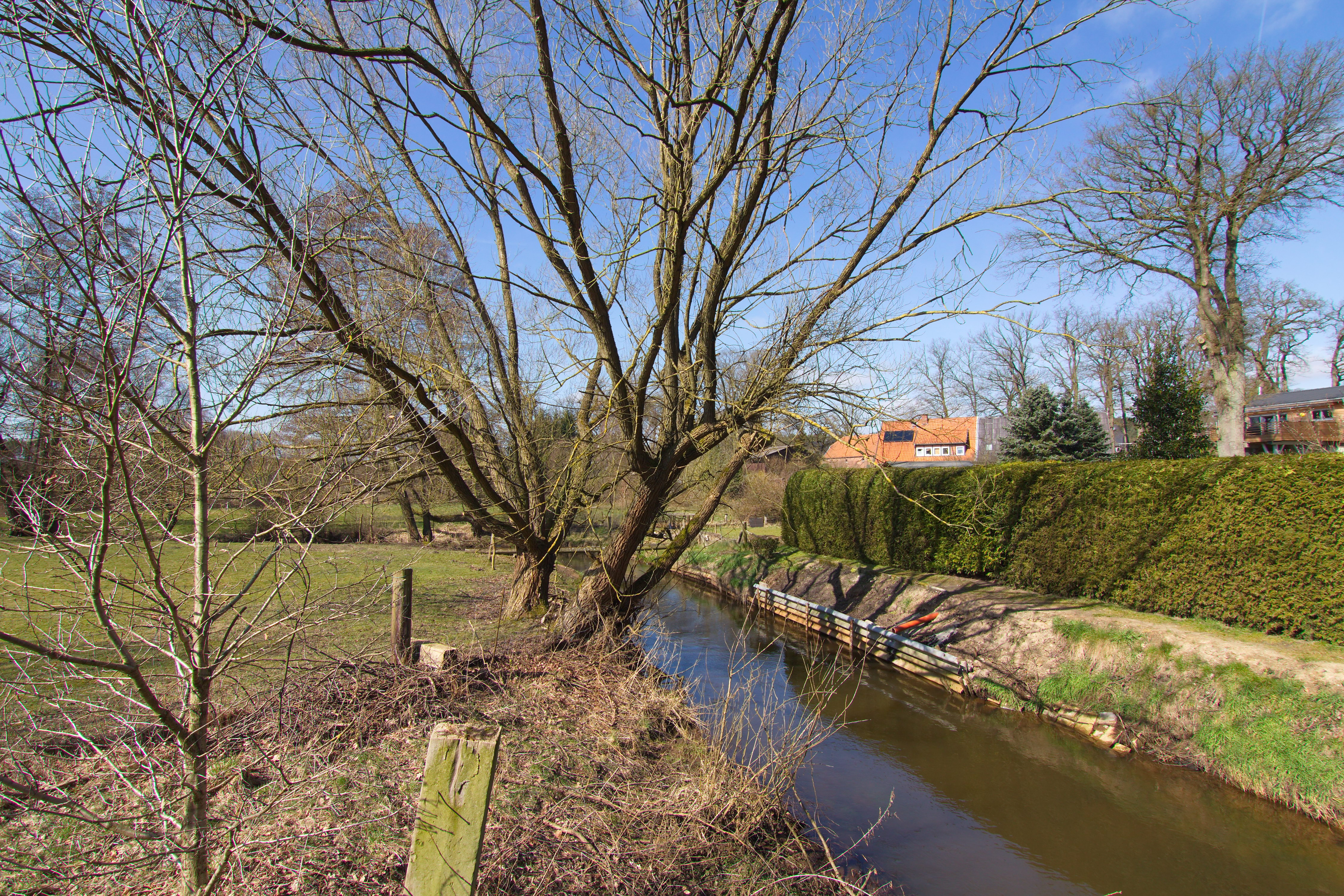 Blick auf die Luhe in Steinbeck (Bispingen), Niedersachsen, Deutschland